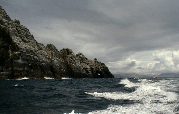 Skellig Michael